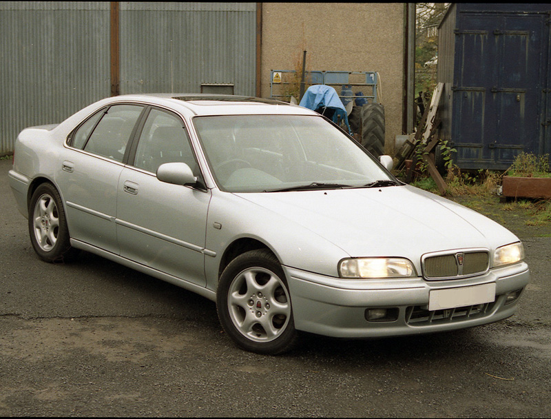 I took the photo and it is of my own car.